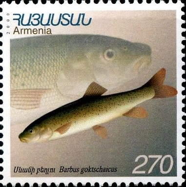 Stamp of Armenia